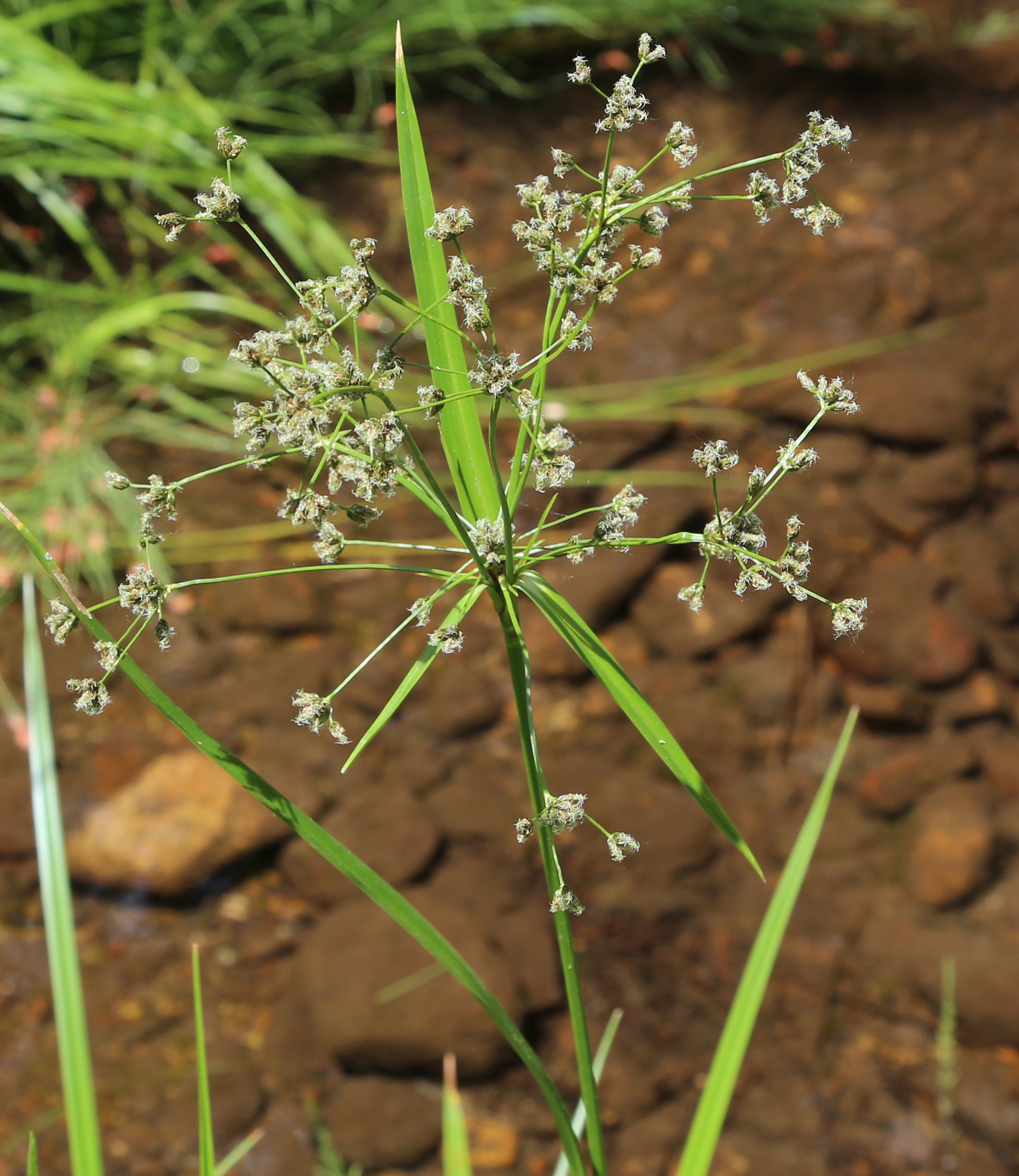 Scirpus microcarpus (smallfruited bulrush) flowerhead. Along Bishop Creek 8,500 ft (2,600 m), in Aspendell, Inyp County, California.